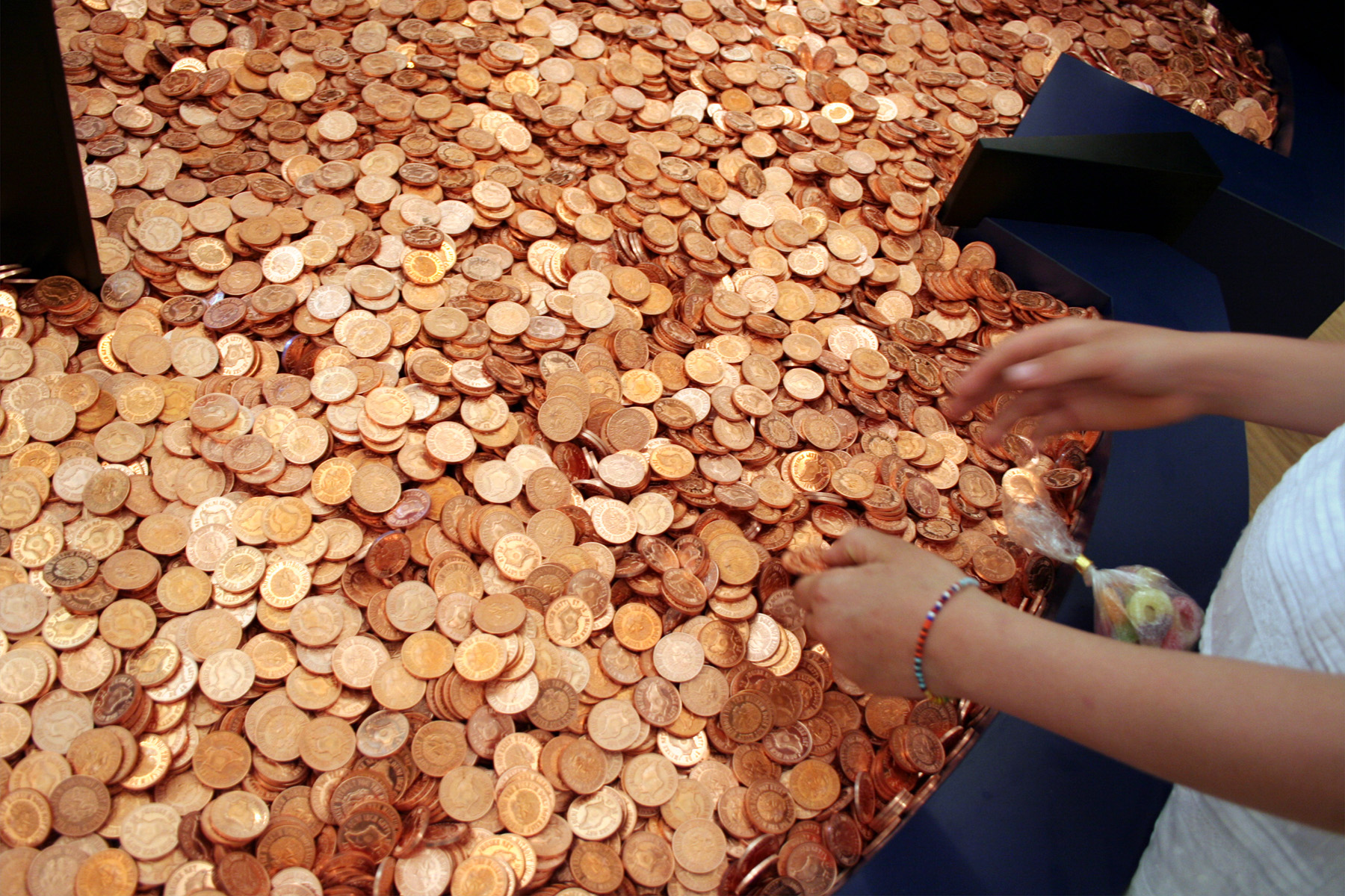 The artwork was photographed on the opening day of Mudam.